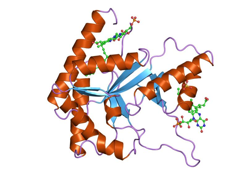 Cartoon representation of the molecular structure of protein registered with 1nfp code.